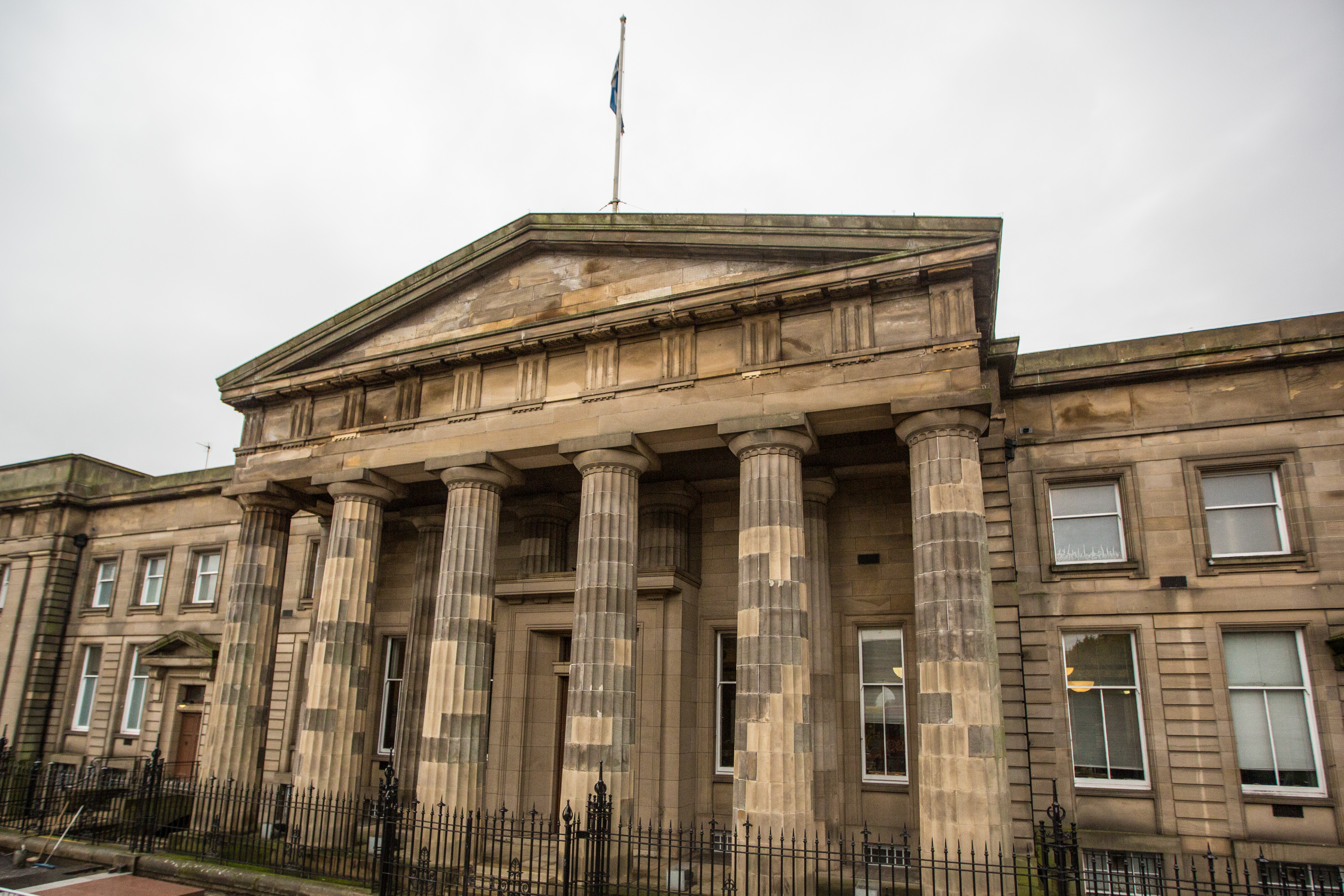 The High Court of Justiciary (the supreme criminal court of Scotland) at Saltmarket, Glasgow, Scotland, United Kingdom.